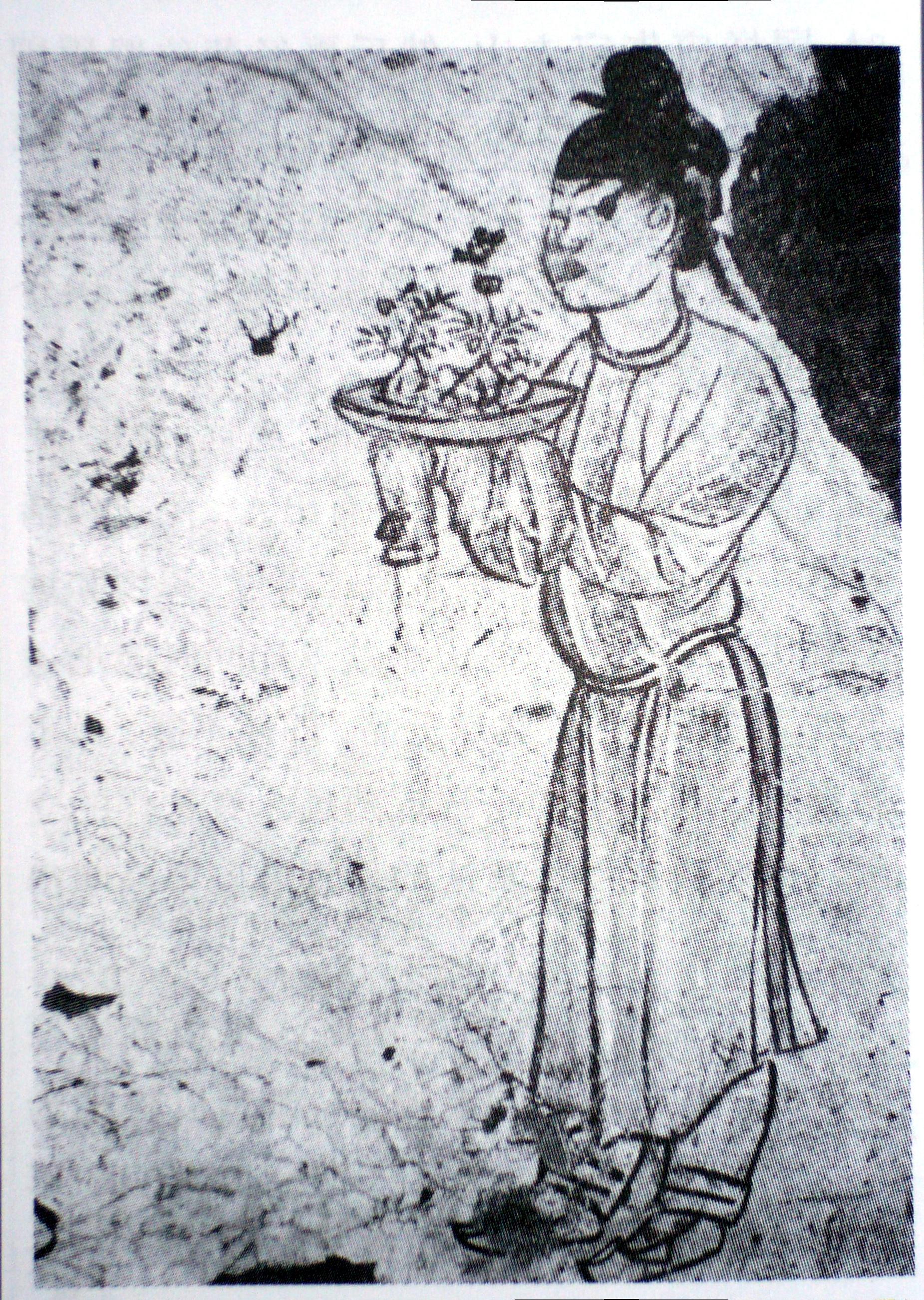 Penzai (penjing) on a mural (706 CE) — in the Tang Dynasty tomb of Prince Li Xian.